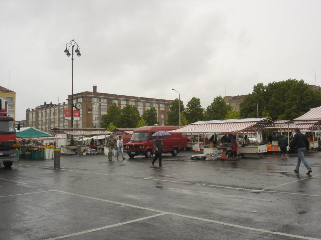 Tammelantori square in Tampere